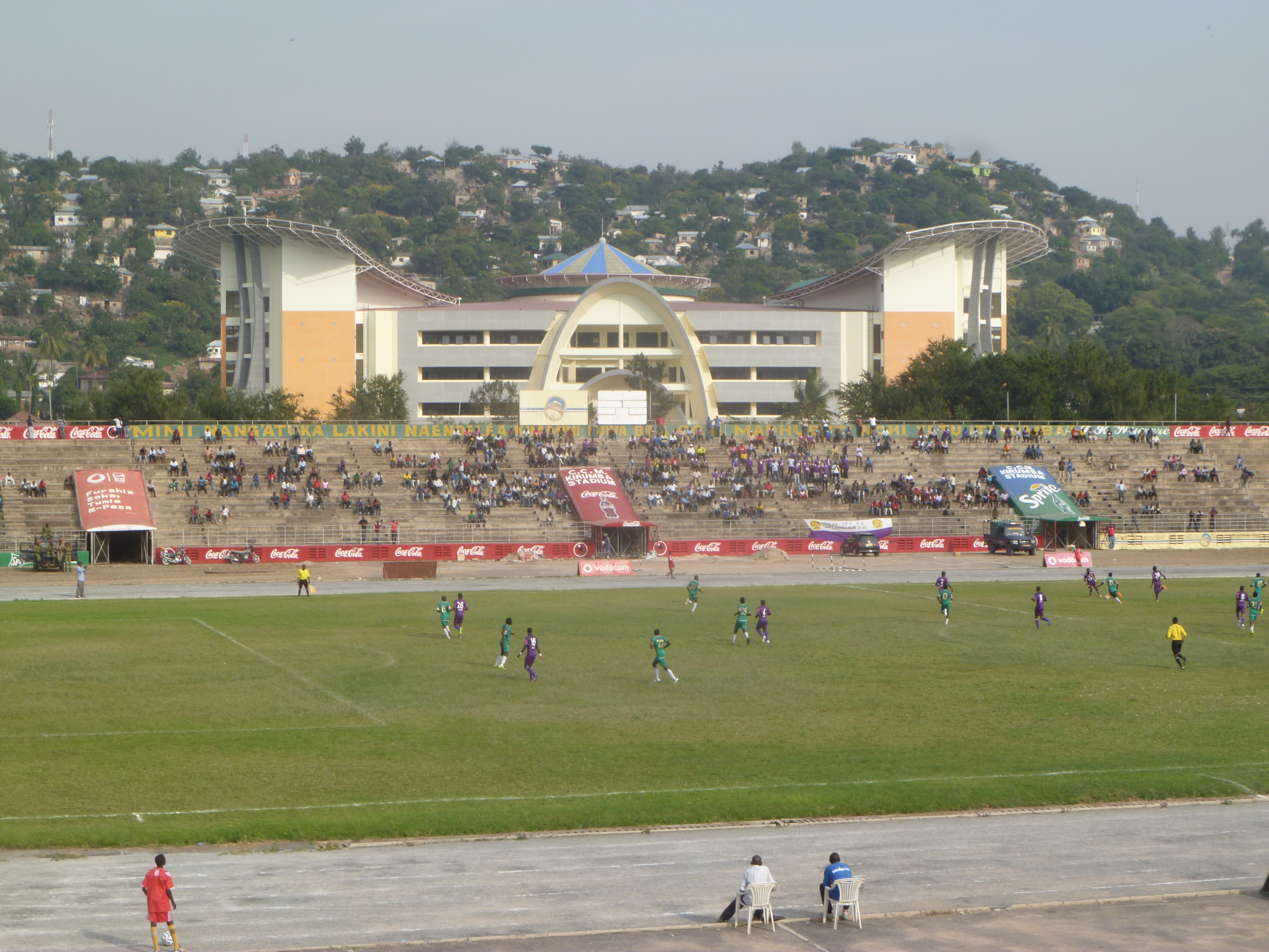 CCM Kirumba Stadium in Mwanza, Tanzania. During the Tanzanian Premier League match between Kagera Sugar and Mbeya City on January 17th 2015. Rock City Mall is seen in the background.